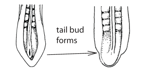 Standard Event System character depiction